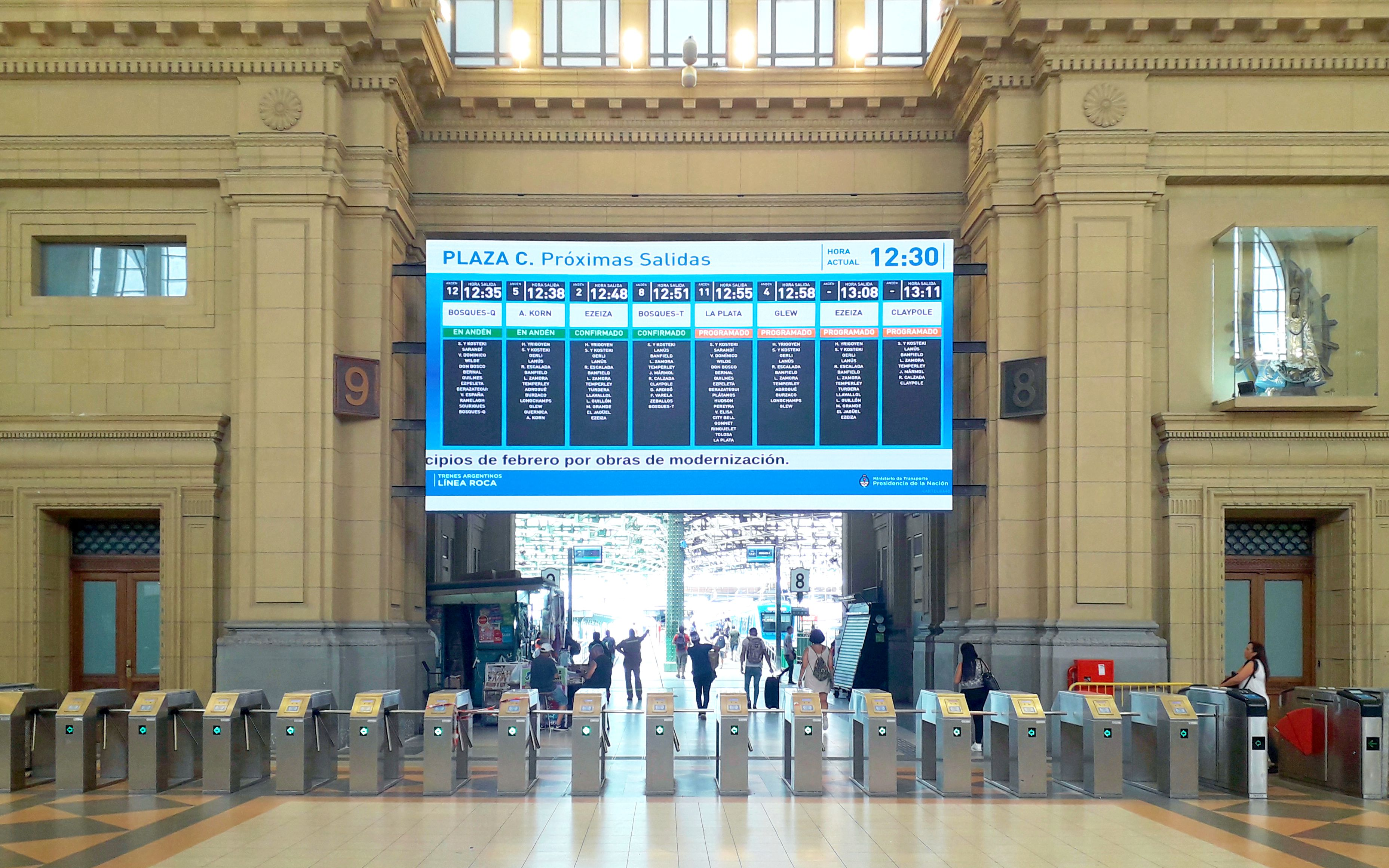 Central hall of Constitution Station at Buenos Aires City. January 2020.